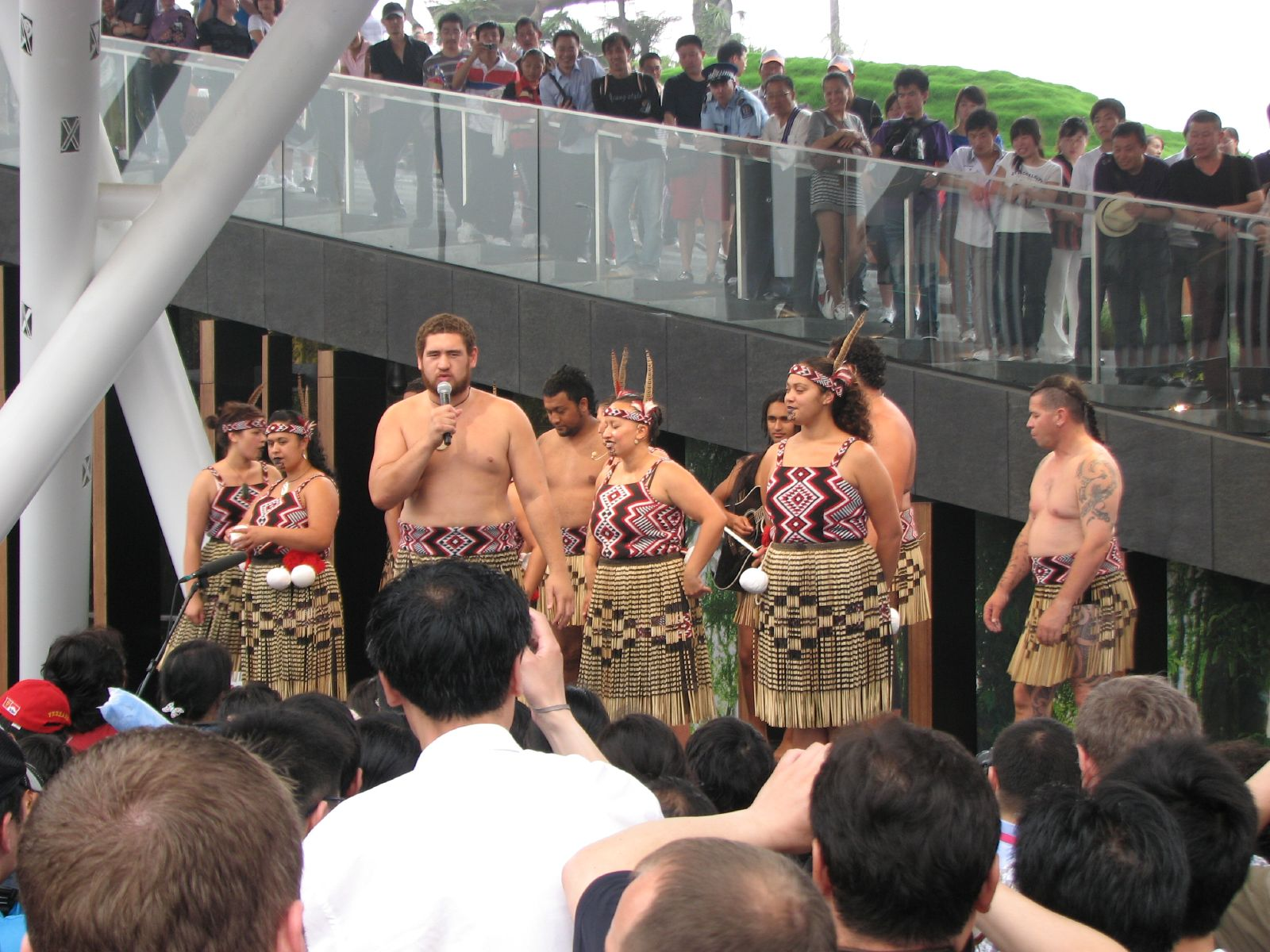 Maori dancers at New Zealand Pavilion of Expo 2010